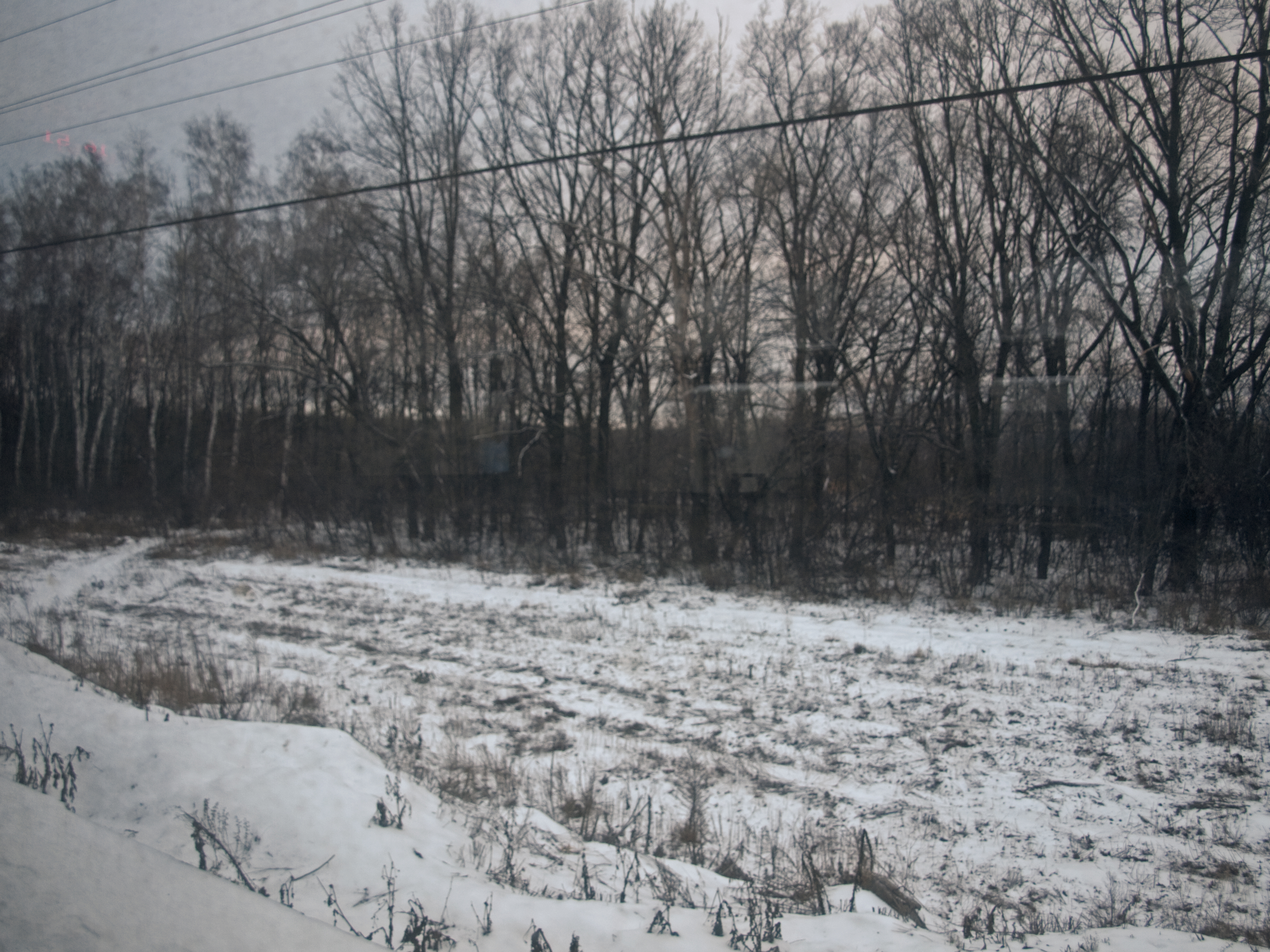 The railway station of Ozerovo, Yakovlevsky District, Belgorod OblastUnknown железнодорожная платформа озерово, яковлевский район белгородской области